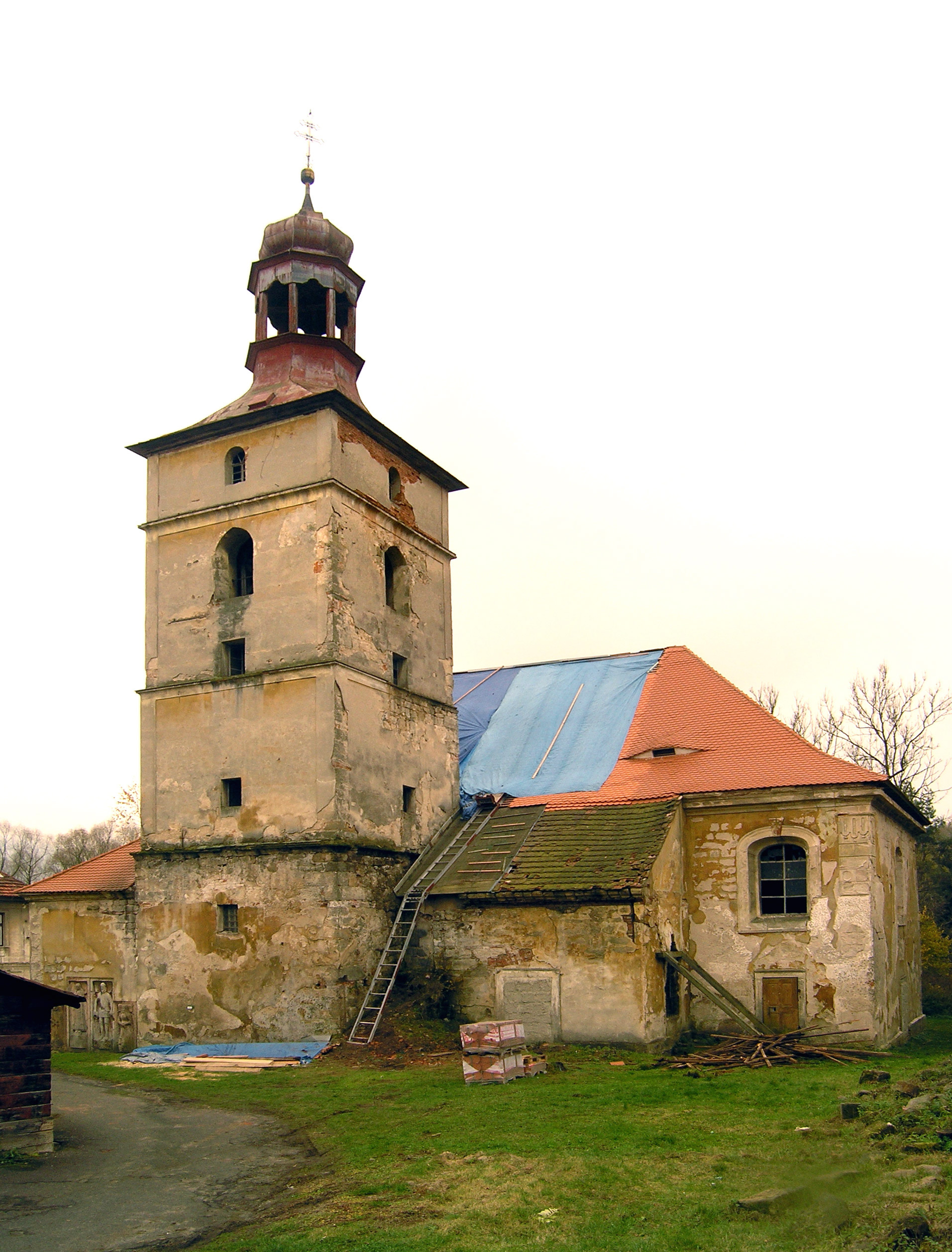 Church in Stvolínky village, Czech Republic